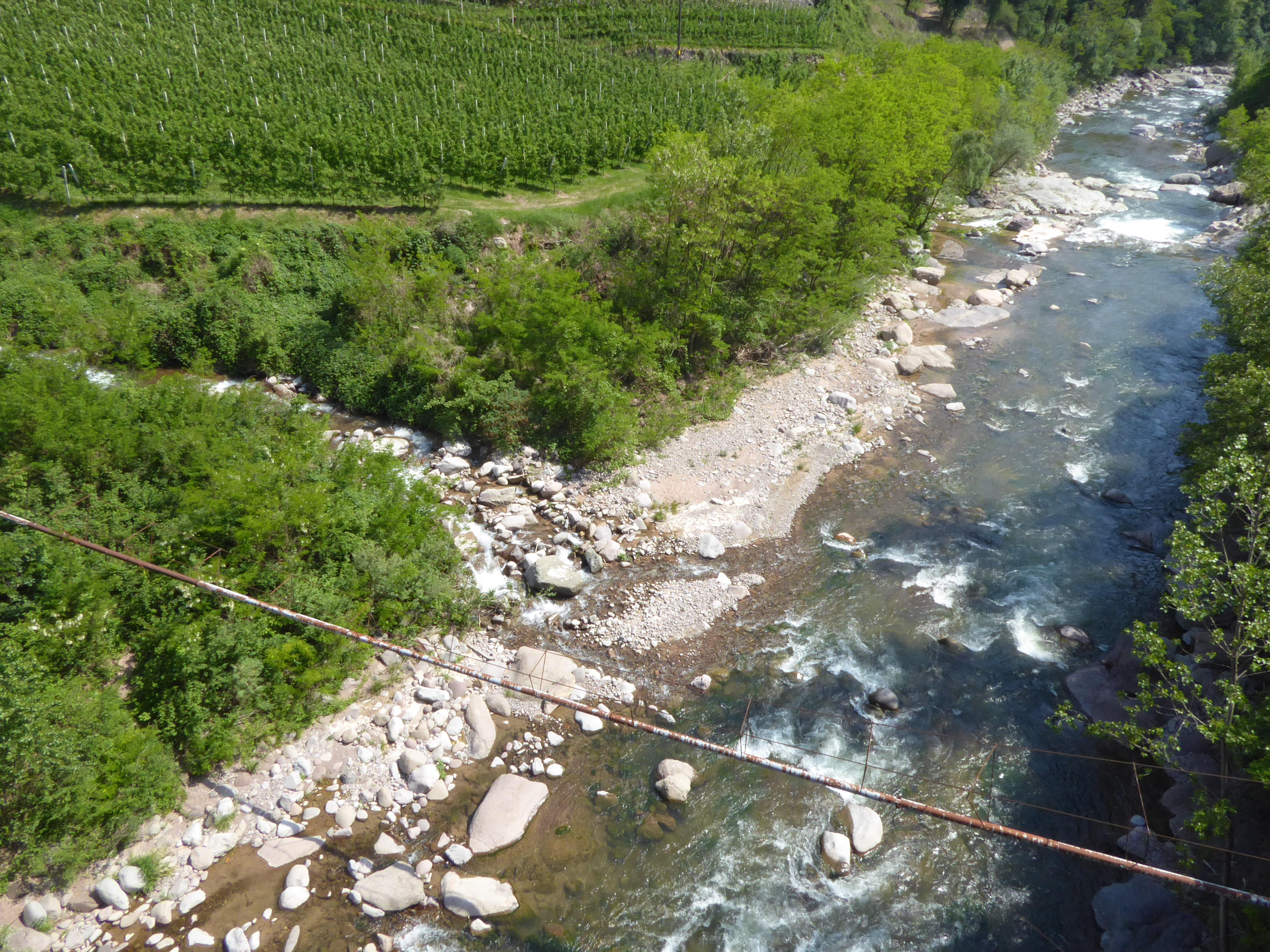 The mouth of Regnana river, where it flows into the Avisio river, between Segonzano and Altavalle (Trentino, Italy)